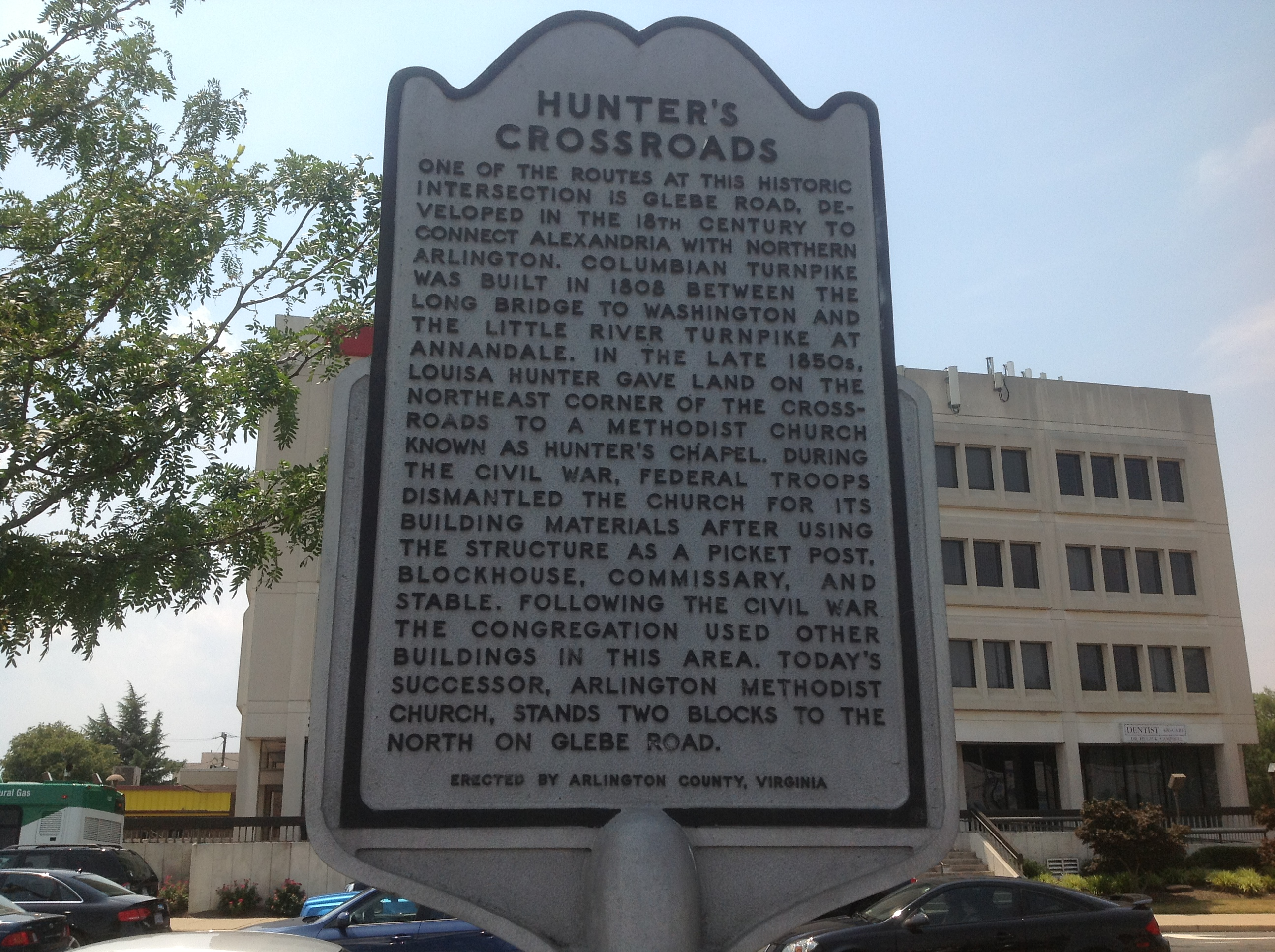 This is the Arlington County (VA) Historical marker for Hunters Crossroads.